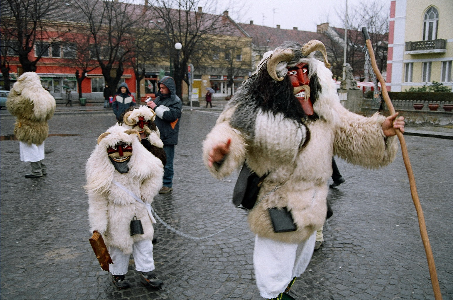 Two masked "Buso" at the Busójárás Carnival in Mohács, Hungary